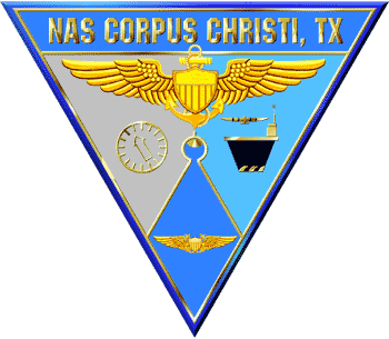 NAS_Corpus_Christi_logo